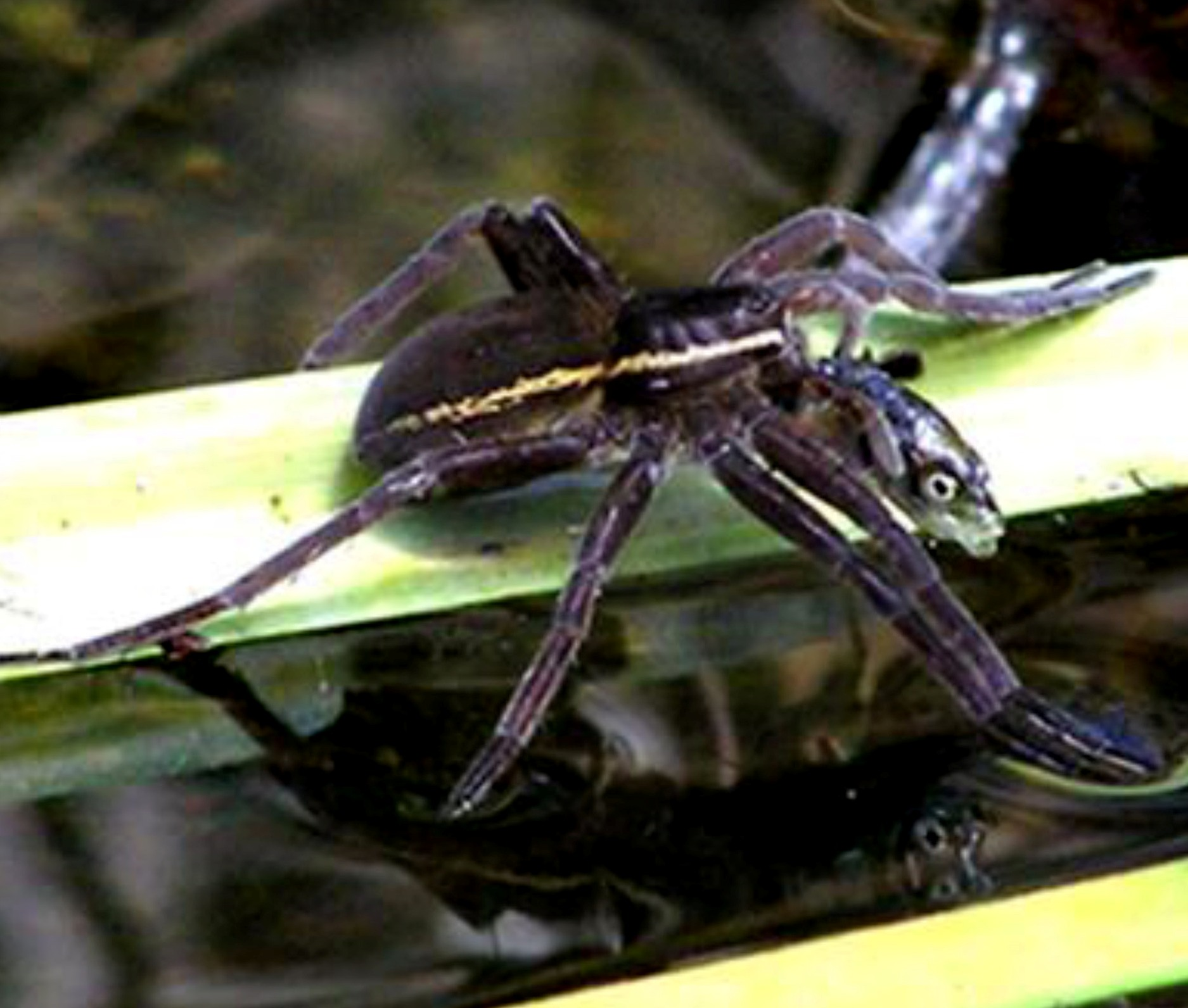 Fish caught by spider – example from Europe. Gravid adult female Dolomedes plantarius captured stickleback (Pungitius laevis) in turf pond at Redgrave and Lopham Fen National Nature Reserve in East Anglia, UK (photo by Helen Smith, South Lopham, Norfolk, UK; report # 87).